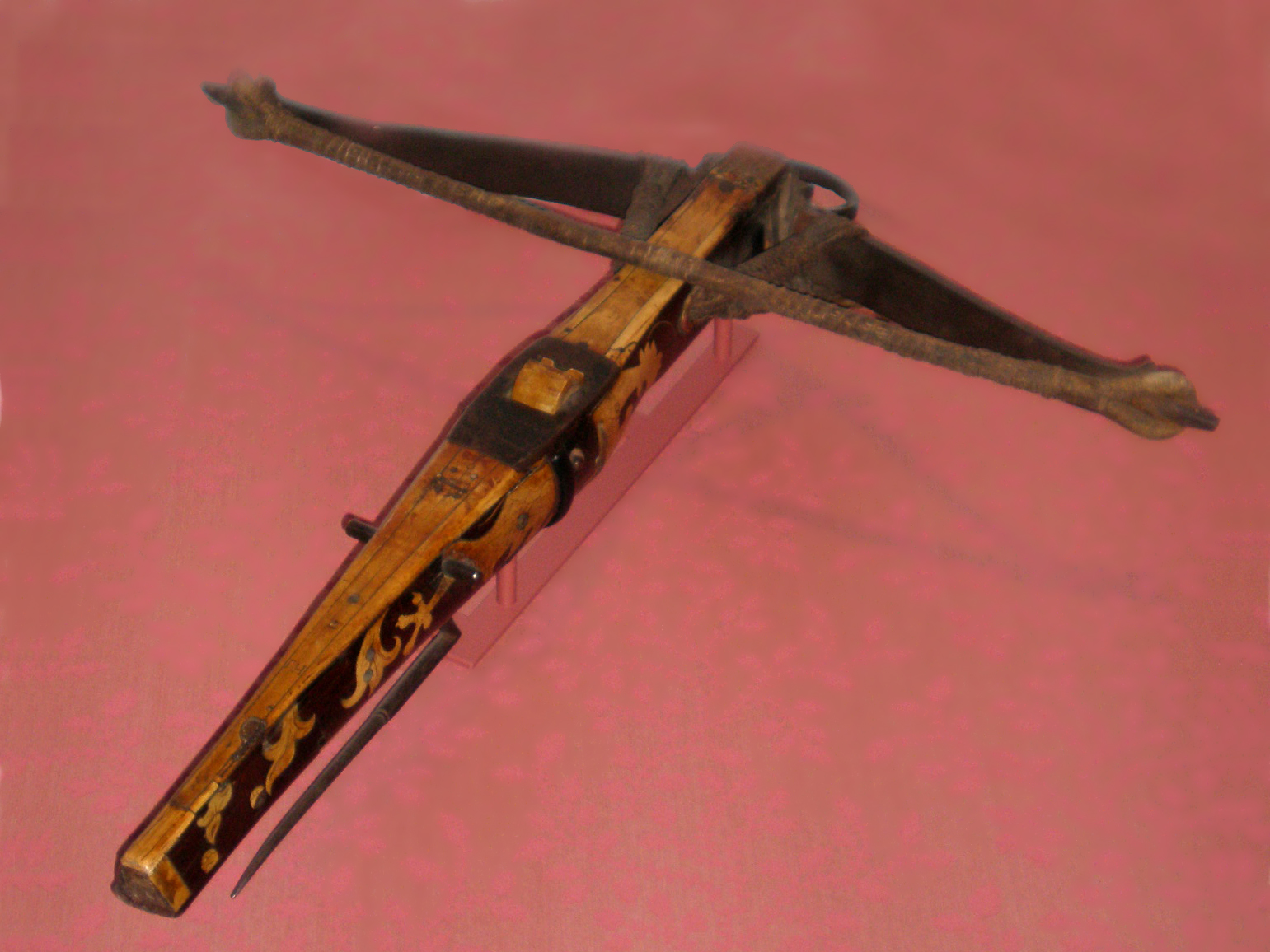 German crossbow (16th century) from Castle Kissingen in Bavaria on display at the Iris & B. Gerald Cantor Center for Visual Arts on the Stanford University Campus in Stanford, California.